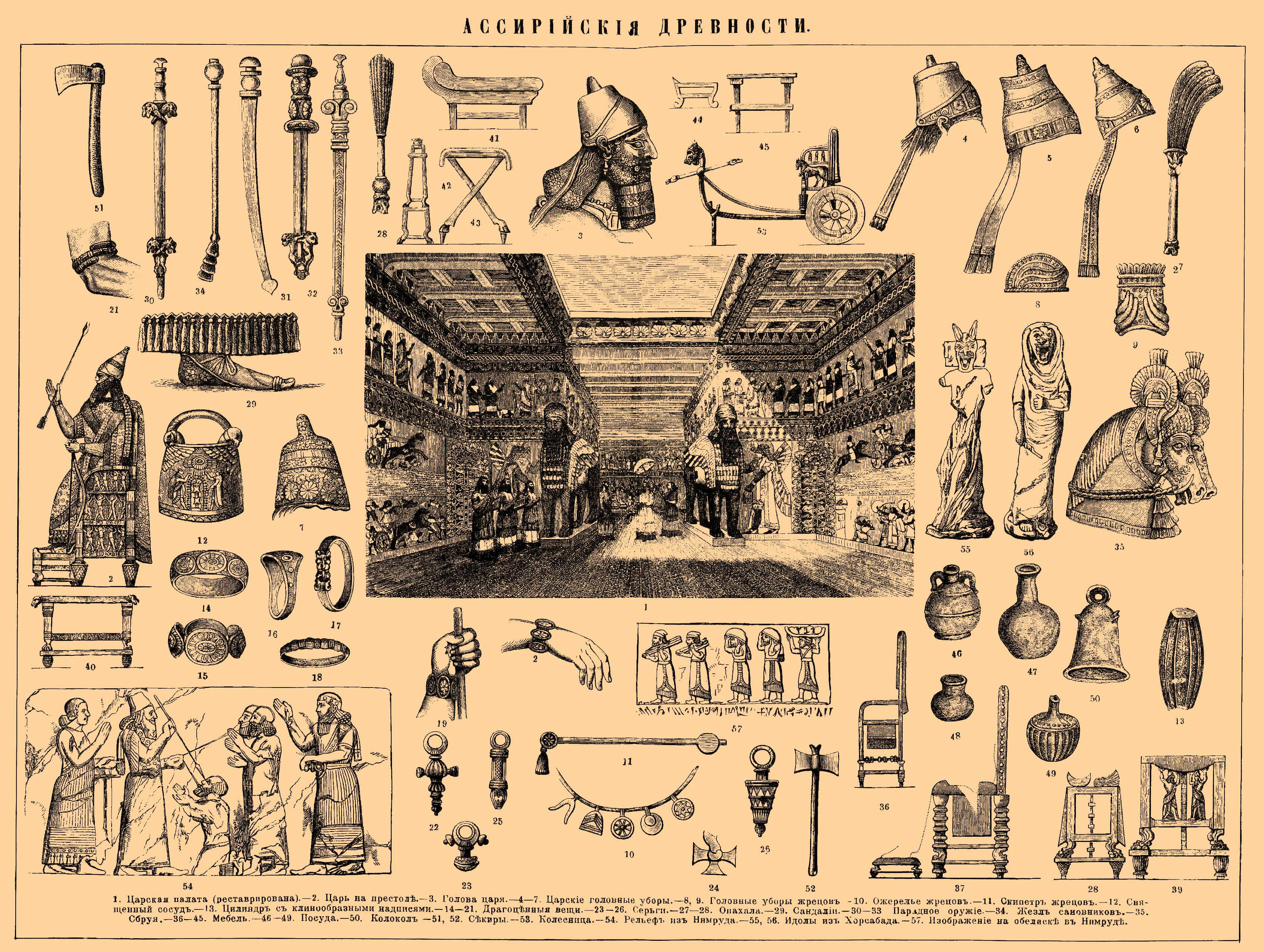 Illustration from Brockhaus and Efron Encyclopedic Dictionary (1890—1907)